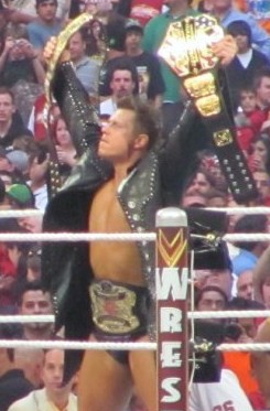 WWE wrestler The Miz